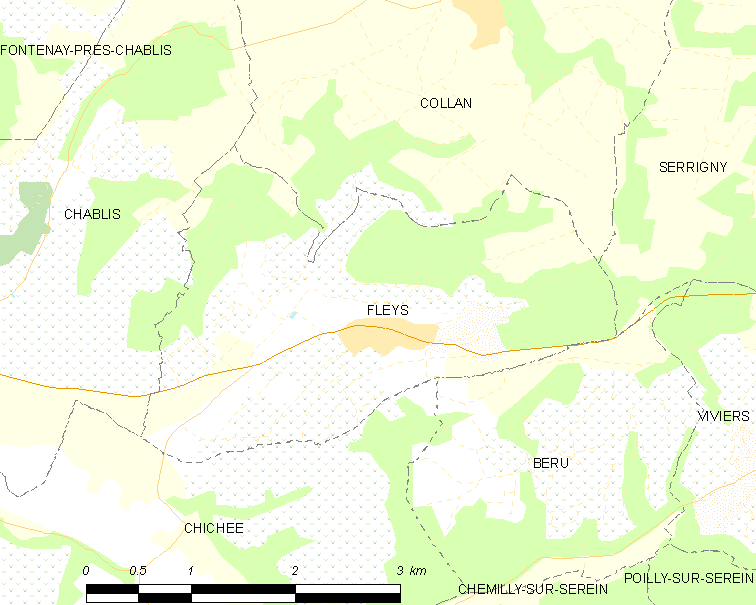 Map of French municipality Fleys